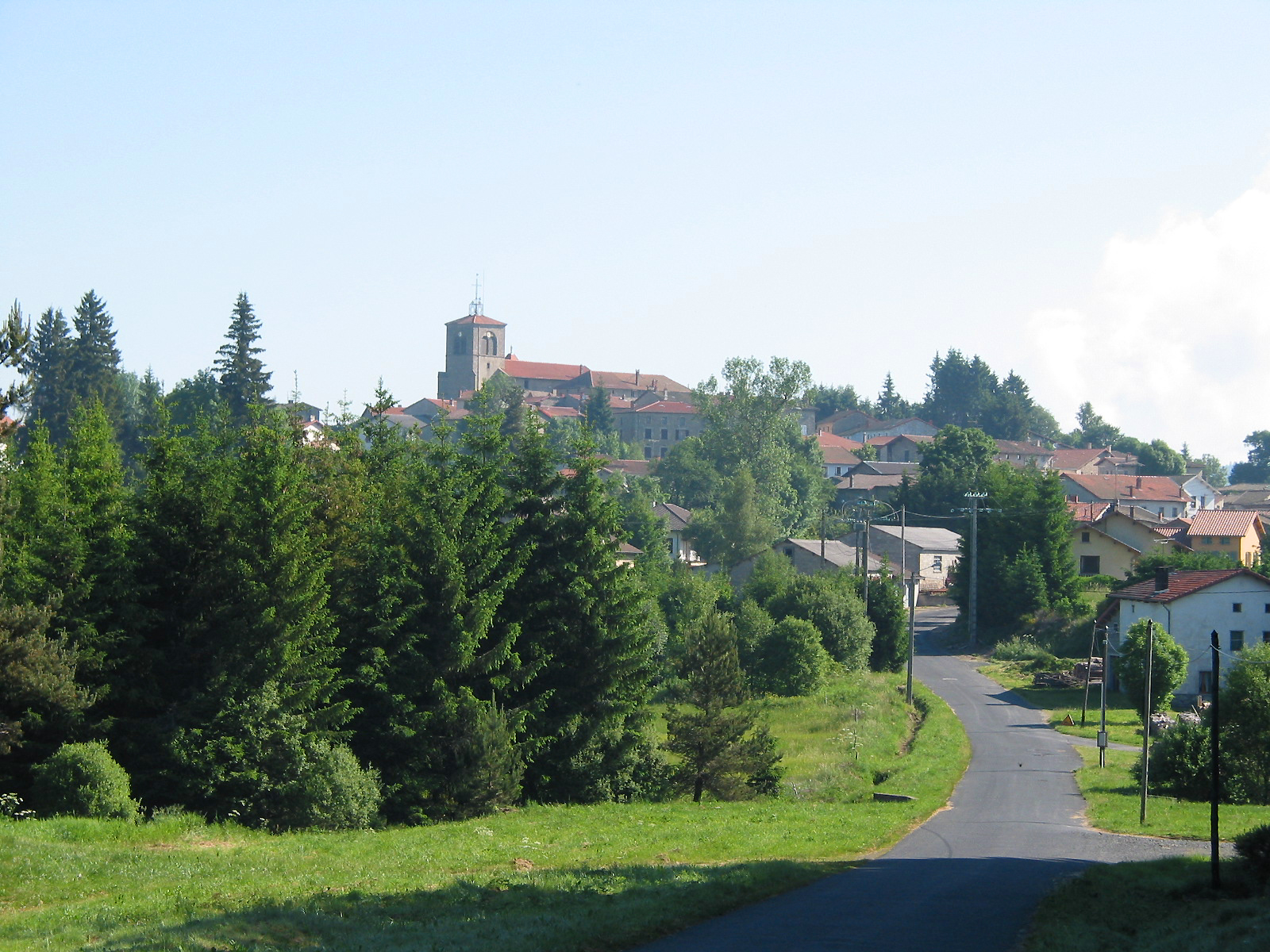 Fournols (Puy-de-Dôme - France), the village.